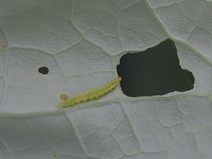 Juvenile of Plutella xylostella (Diamondback moth). Photo by Fk, 2006 in Japan.